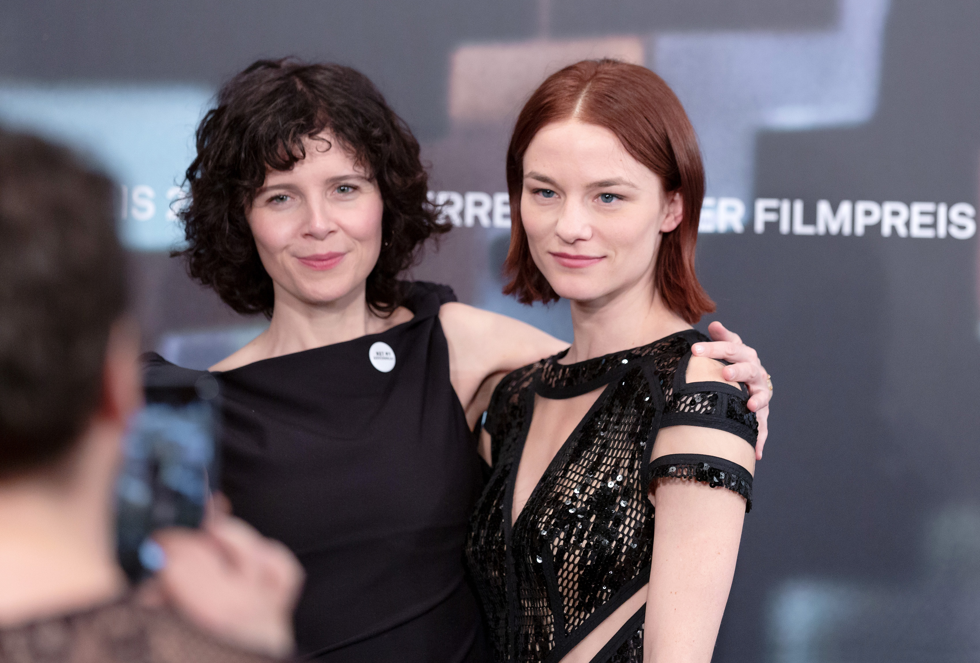 Valerie Pachner (r.) and Marie Kreutzer ("The Ground beneath my Feet"),, photo call at the Austrian Film Awards 2019 (Rathaus, Vienna,Austria).